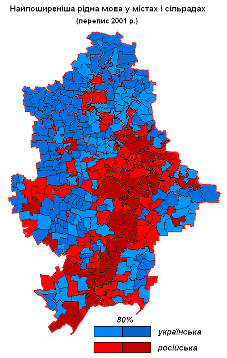 Native languages of Donetsk oblast according to 2001 census